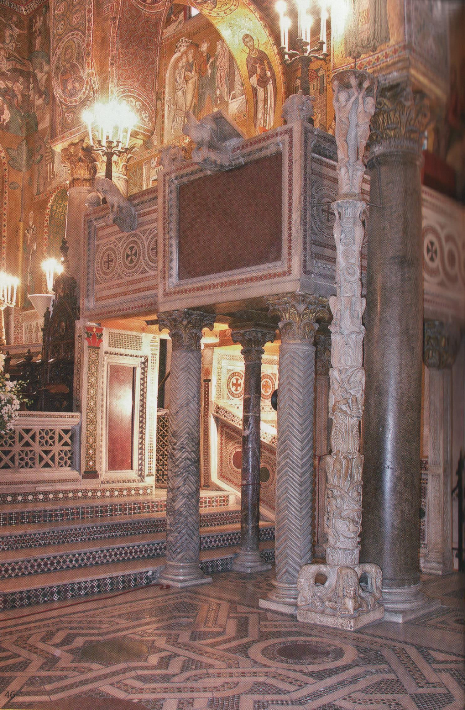 Ambo_and_candlestick